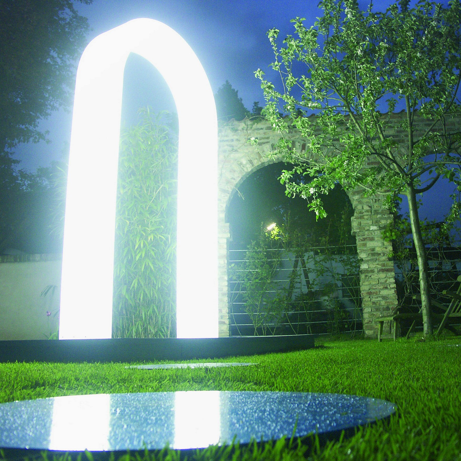 Kinga Dunikowska, Knocking On Heaven's Door, 2004